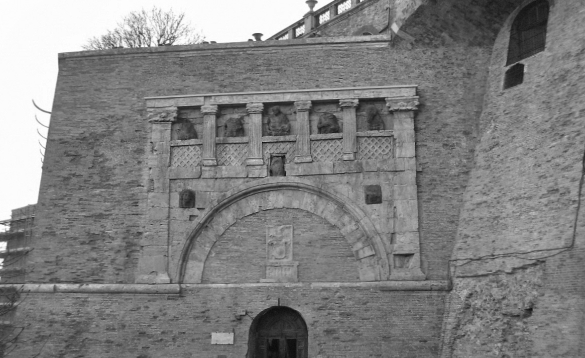 Porta Marzia (3rd century B.C.) in Perugia, Italy.